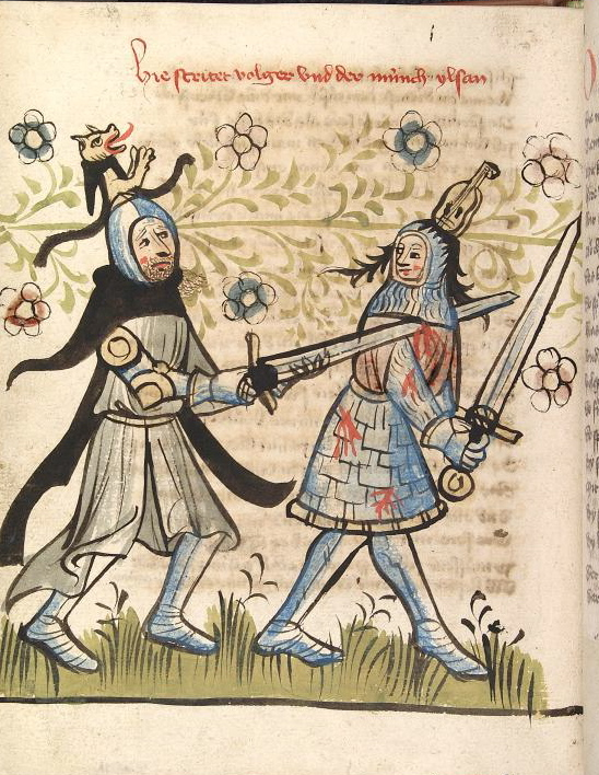 The picture shows a fight between the monch Islan (left) and Volker von Alzey (right), it is taken from "der Rosengarten von Worms" , a text from the handwriting Cod.Pal.germ.359.